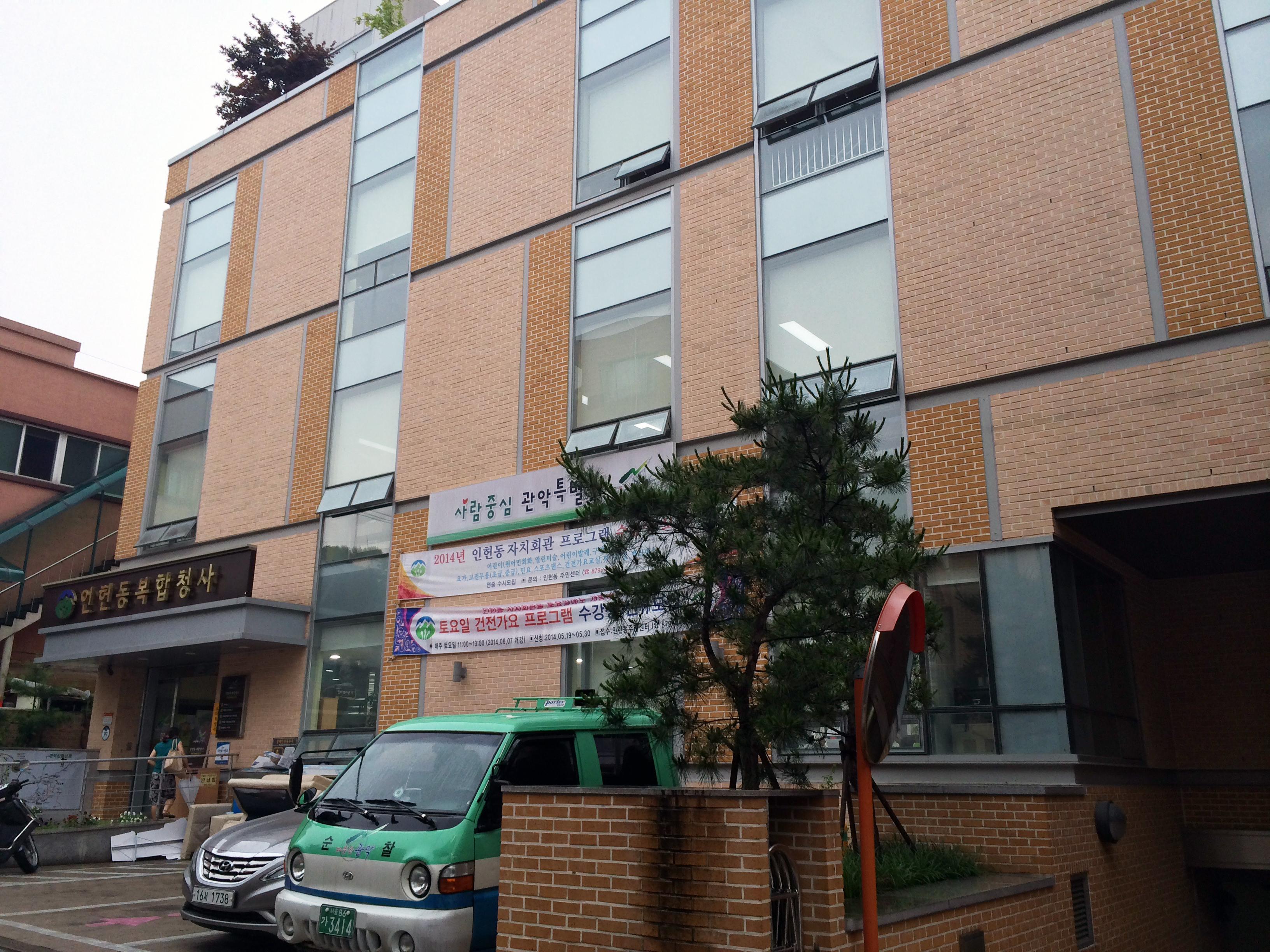 Inheon-dong Comunity Service Center (Gwanak-gu)